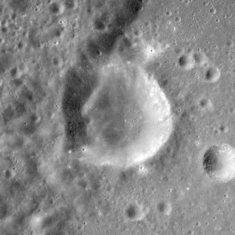 Bergman crater, within Mendeleev crater, on the far side of the moon.